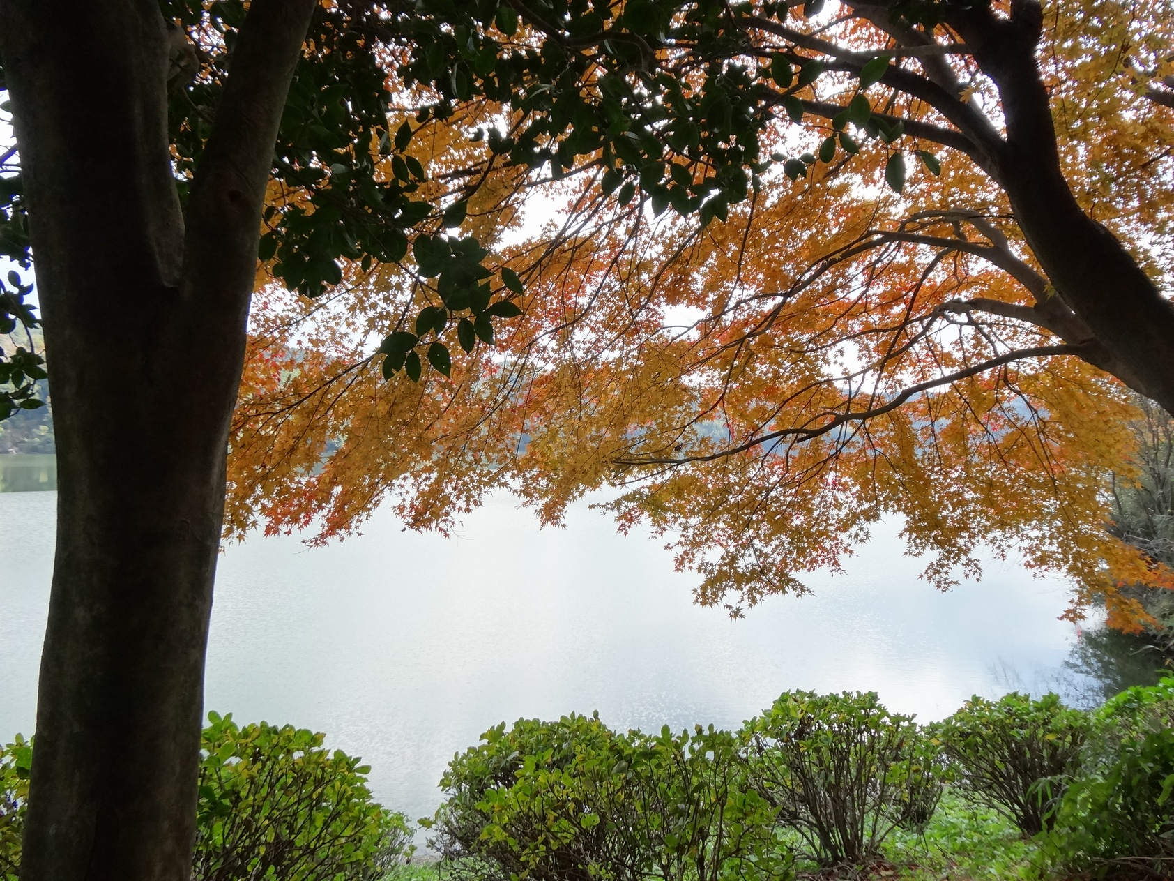 Lake Osumi on Autumn 2013 (KamiTakakuma-cho, Kanoya City, Kagoshima Prefecture, Japan)